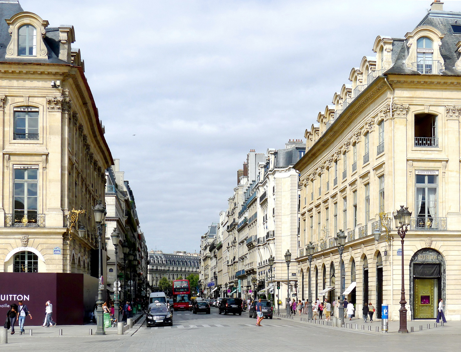 Paix street - Paris